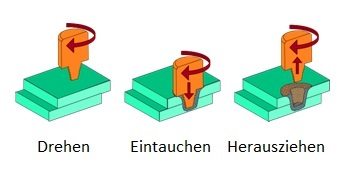 Friction Stir Spot Welding (FSSW) principle